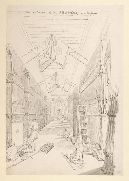 "'The interior of the Arsenal, Fort William', Calcutta," pencil and ink on paper, by the Anglo-Indian businessman and sometime artist William Prinsep. Dated 1835. Courtesy of the British Library, London.